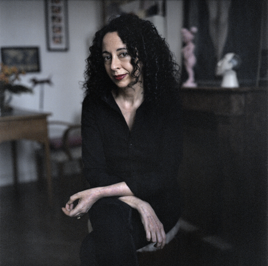 Author, artist and illustrator Ana Juan. Photo by Laura Martínez Lombardía